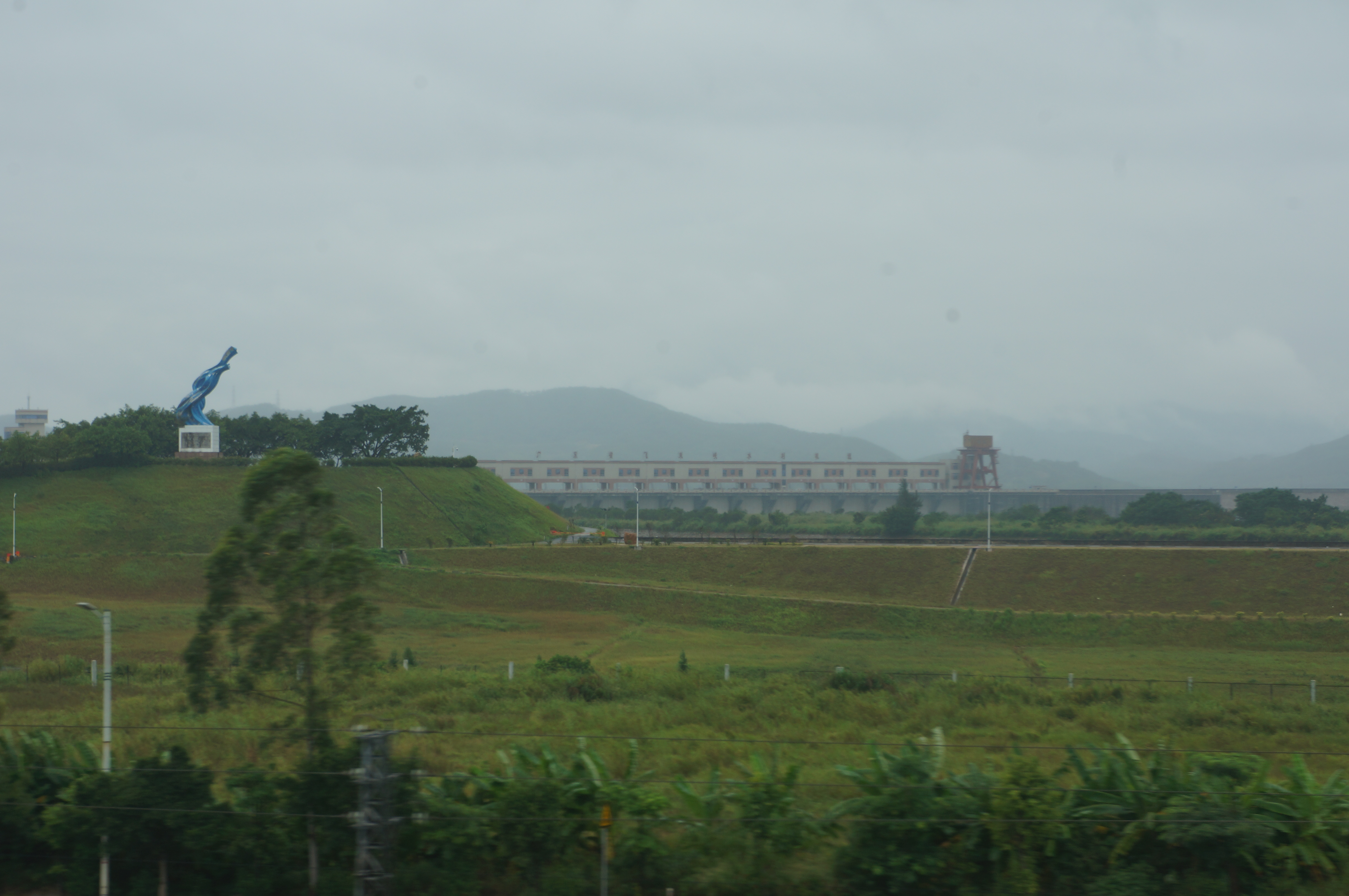 201609 Feilaixia Dam